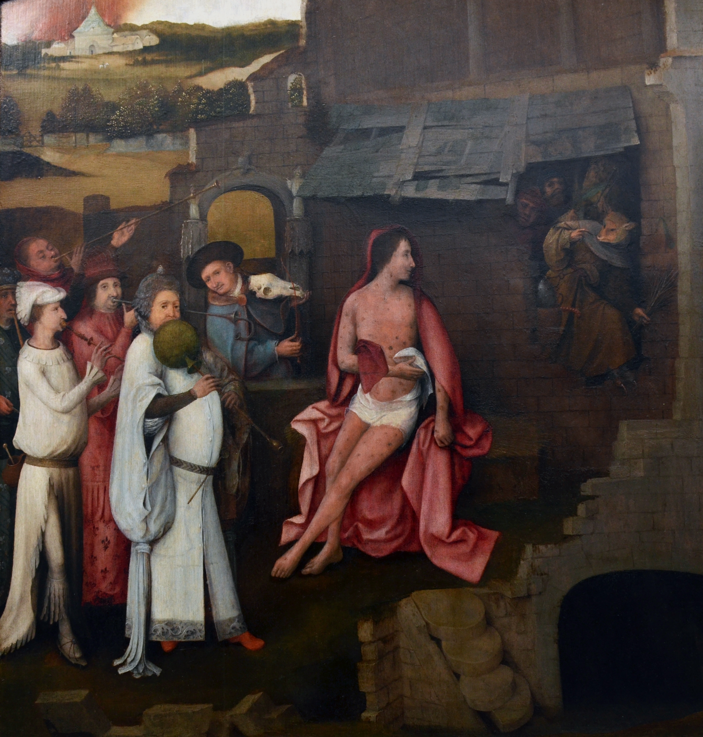 Triptych of Job, workshop of Jheronimus Bosch ( detail of the middle part ) ; oil on panel, first quarter of the 16th century. Groeningemuseum in Bruges.